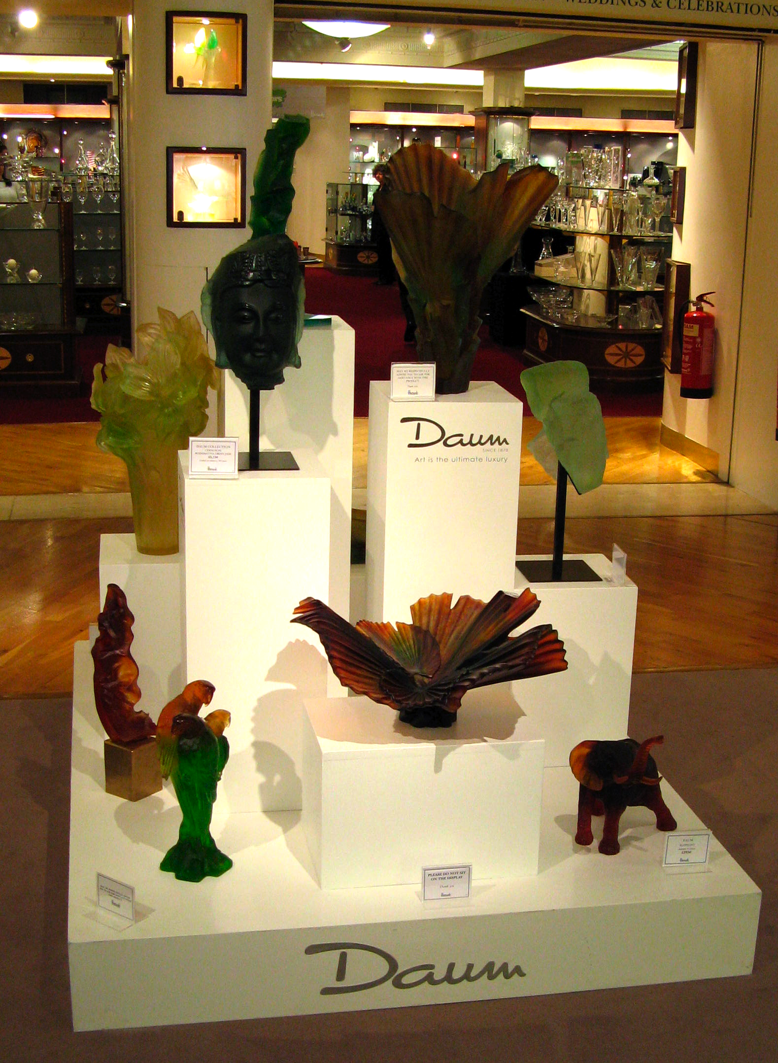 Display of Daum crystal taken at Harrods department store, London